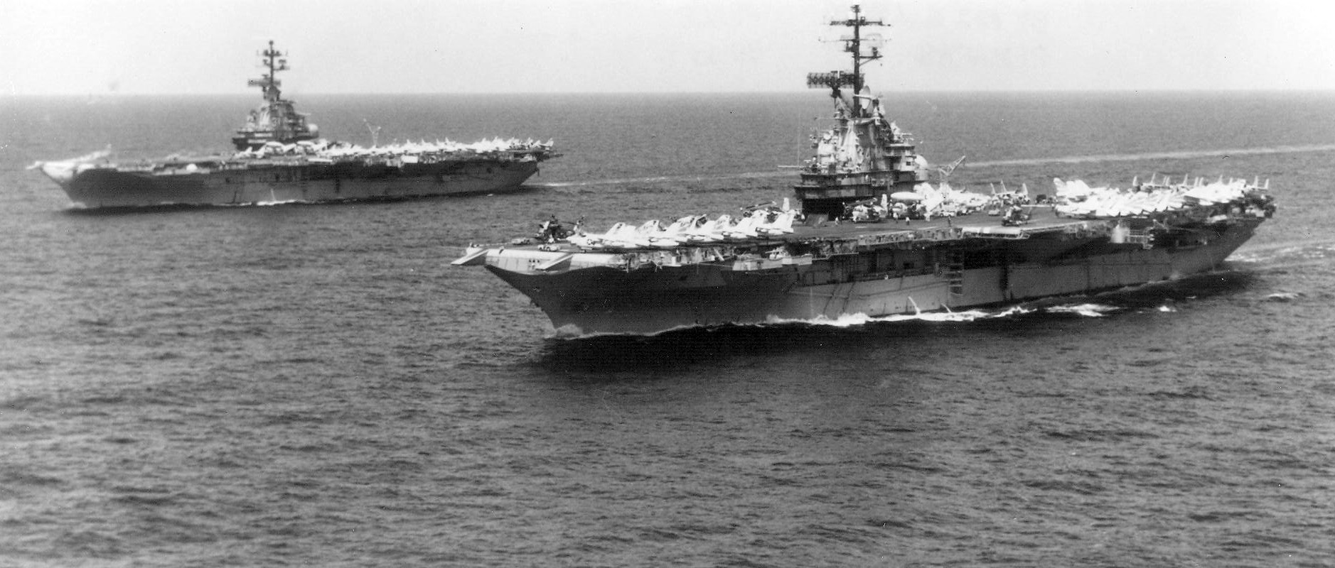 The U.S. Navy aircraft carriers USS Oriskany (CVA-34), foreground, and USS Bon Homme Richard (CVA-31) underway in the Tonkin Gulf off Vietnam on 14 October 1970. Oriskany, with Carrier Air Wing 19 (CVW-19) embarked, was deployed to Vietnam from 14 May to 10 December 1970.Bon Homme Richard, with Carrier Air Wing 5 (CVW-5) embarked, was deployed to Vietnam from 20 April to 12 November 1970.